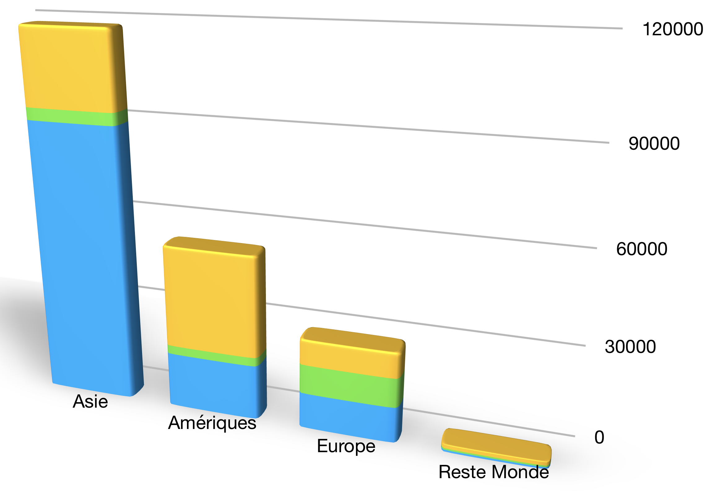 Estimated consumption of major brominated flame retardants, by big region of the world (in tonnes) at the beginning of the 20th century (from Riu (2006), citing Birnbaum and Staskal, 2004)